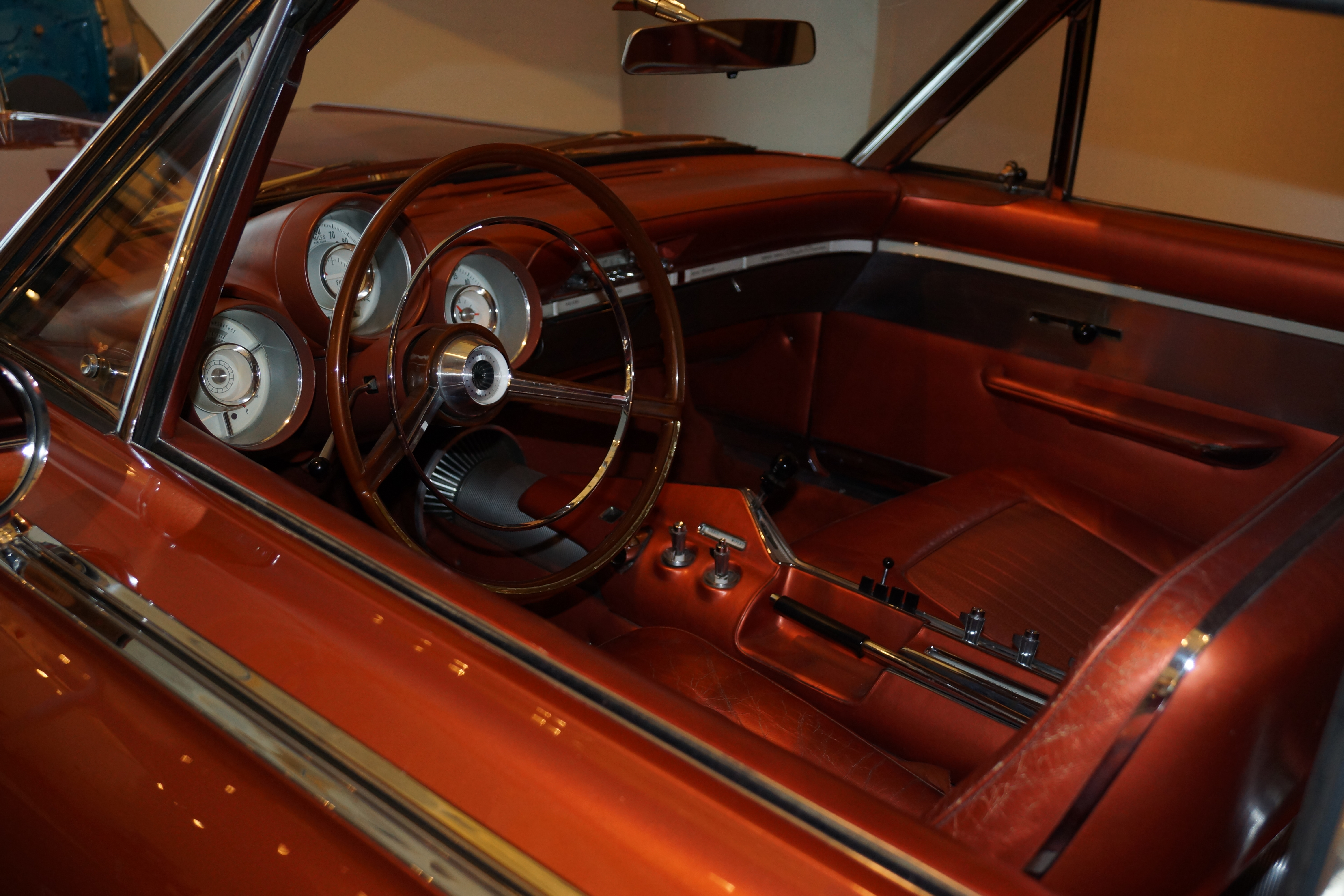 1963 Chrysler Turbine Coupe